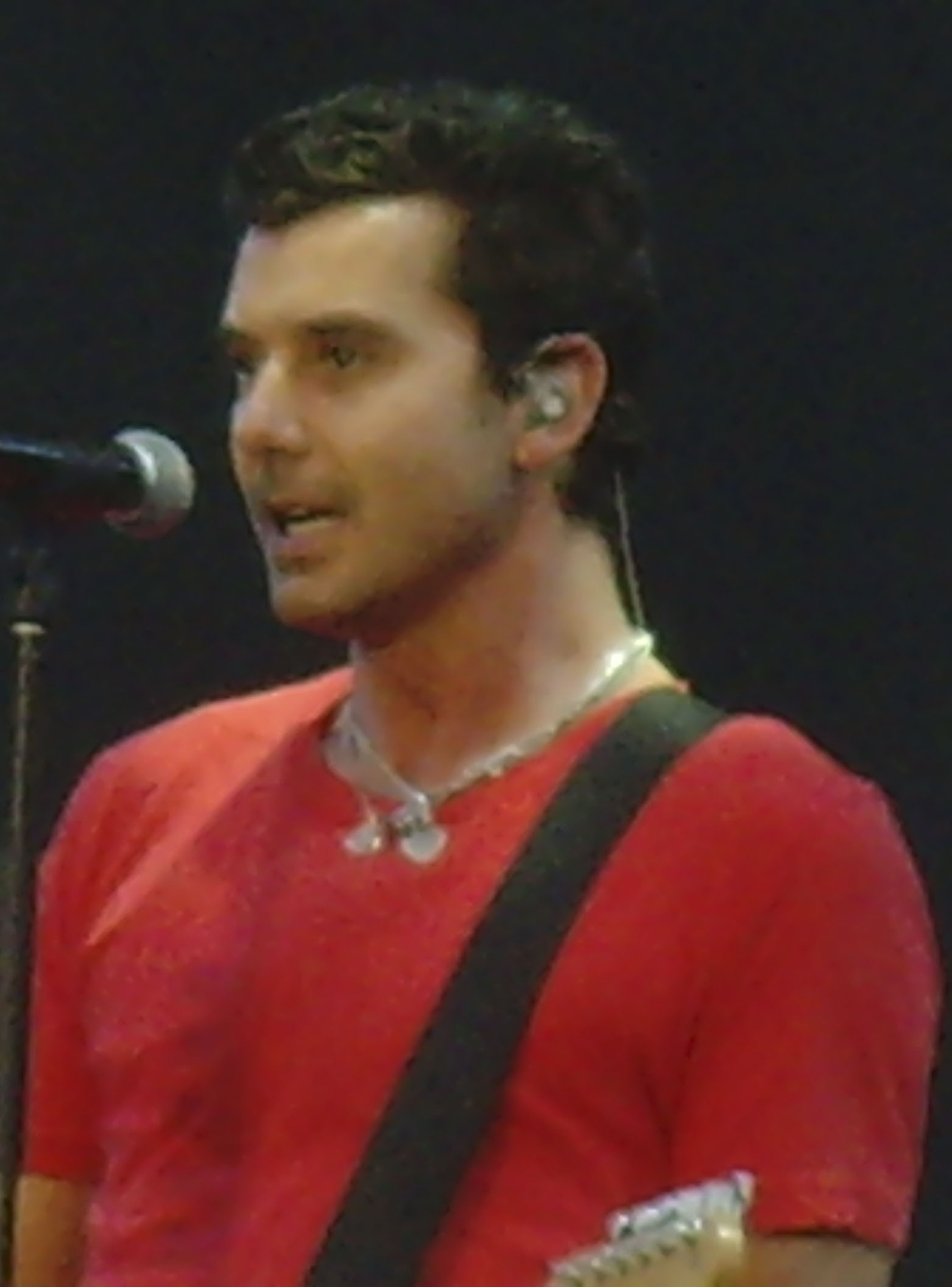 Gavin Rossdale live at Nova Rock 2008